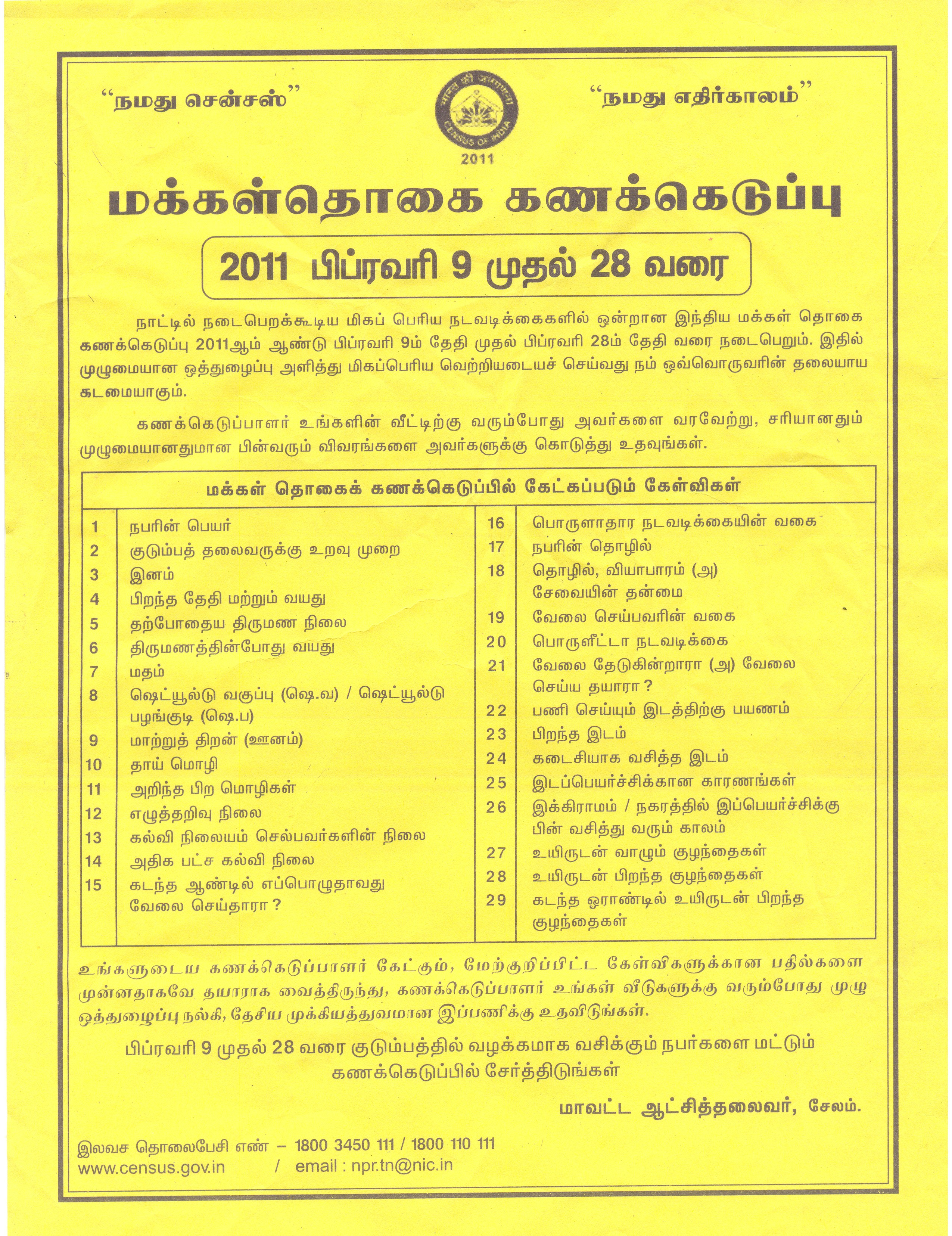 the census (2011) notice of Tamil Nadu, India.